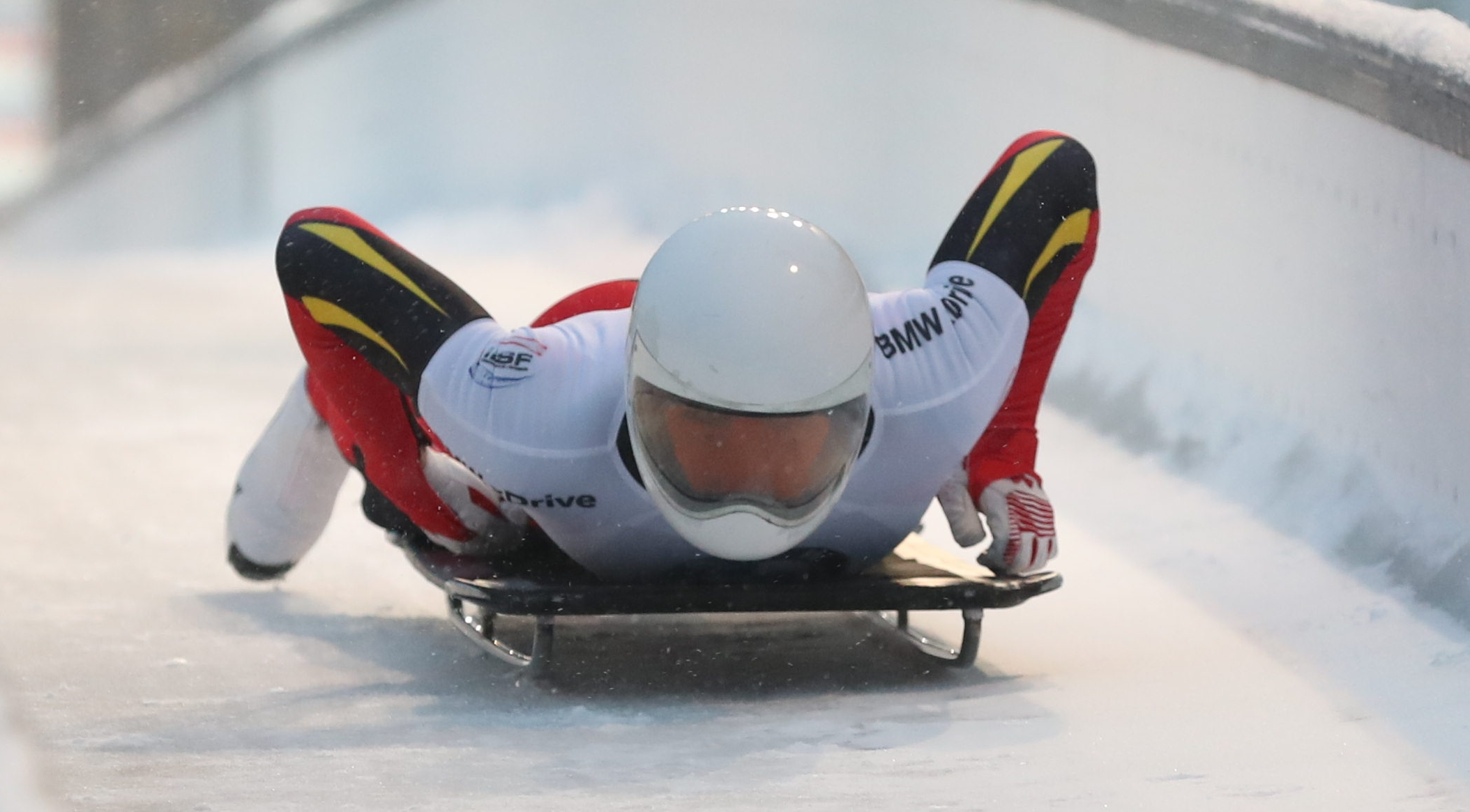 Men's World Cup race at the 2018/19 Skeleton World Cup in Altenberg